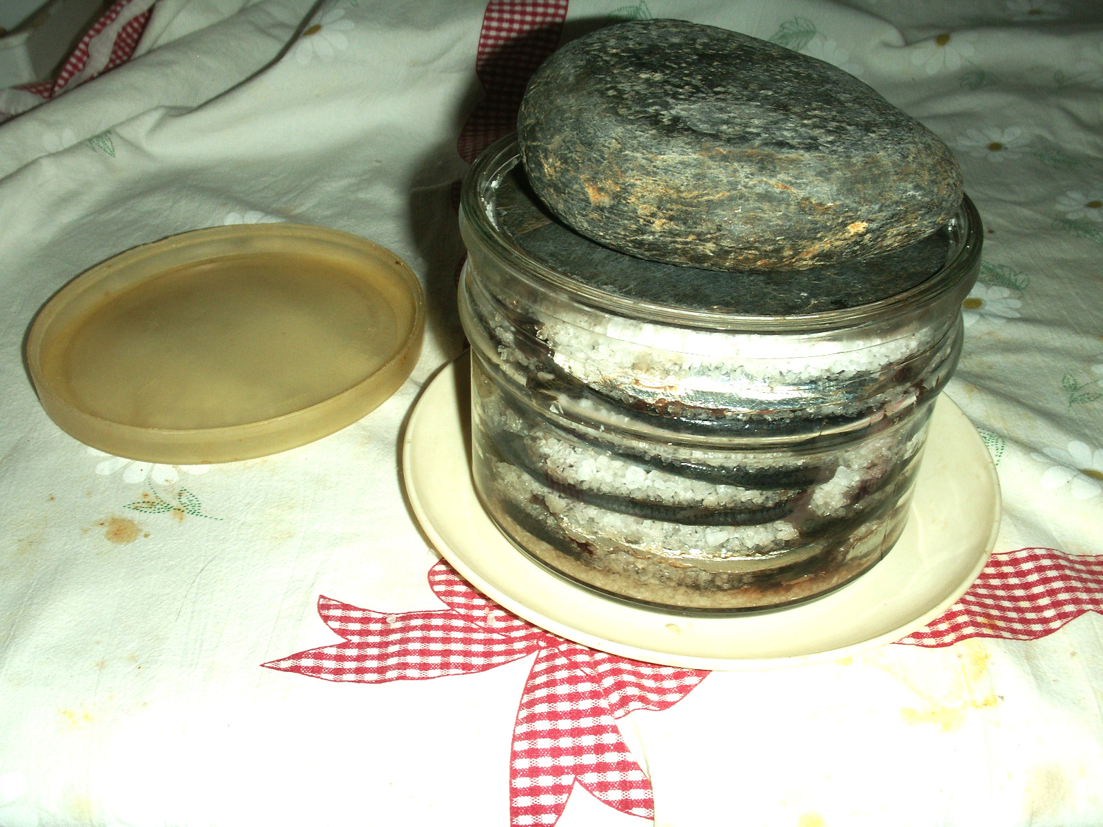 Canned anchovies